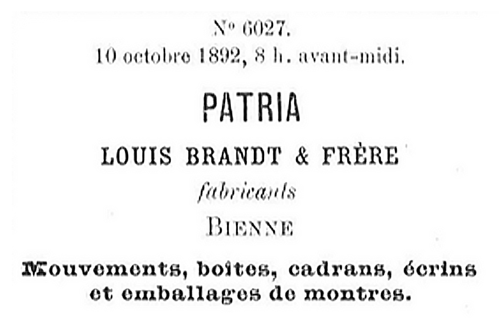 This is a scan of the original trademark publication for Patria, published on 10th October 1892 in "Archives de l'Horlogerie. Marques de fabrique et de commerce Suisse. Enregistrés par le Bureau fédéral à Berne., Volume II" located in Le Bureau Fédéral à Berne.